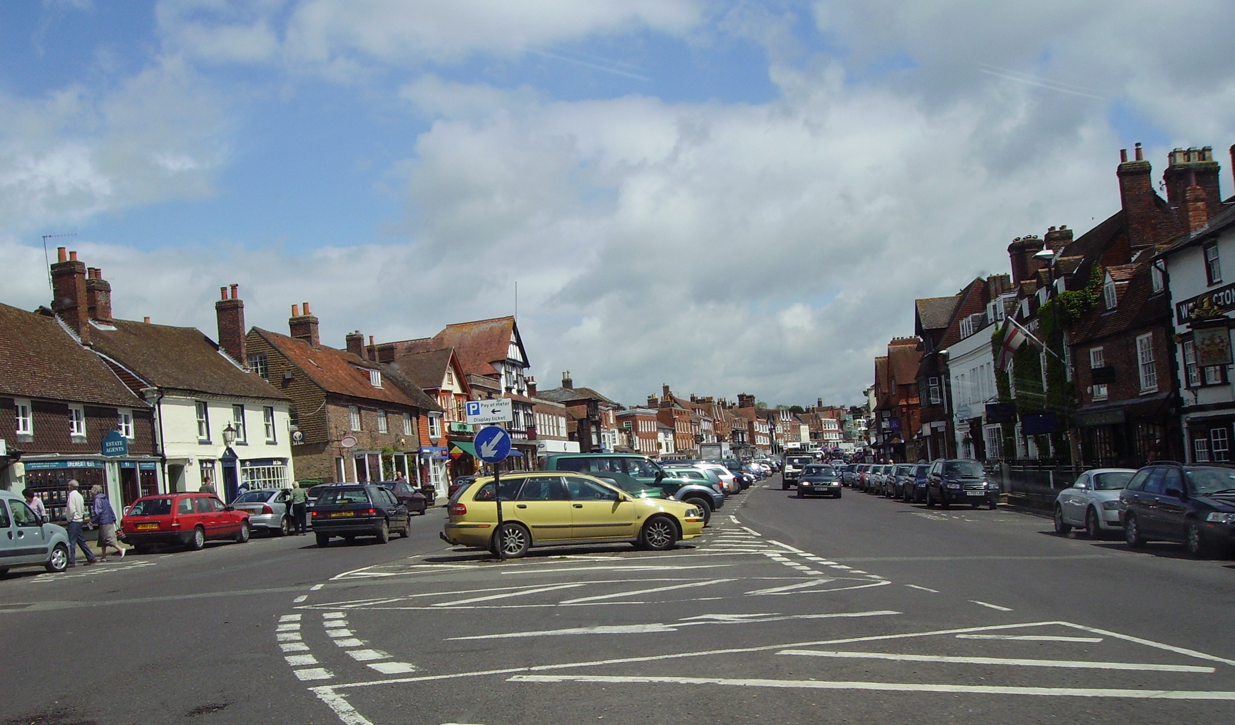 High Street, seen from the top end where the town hall stands.